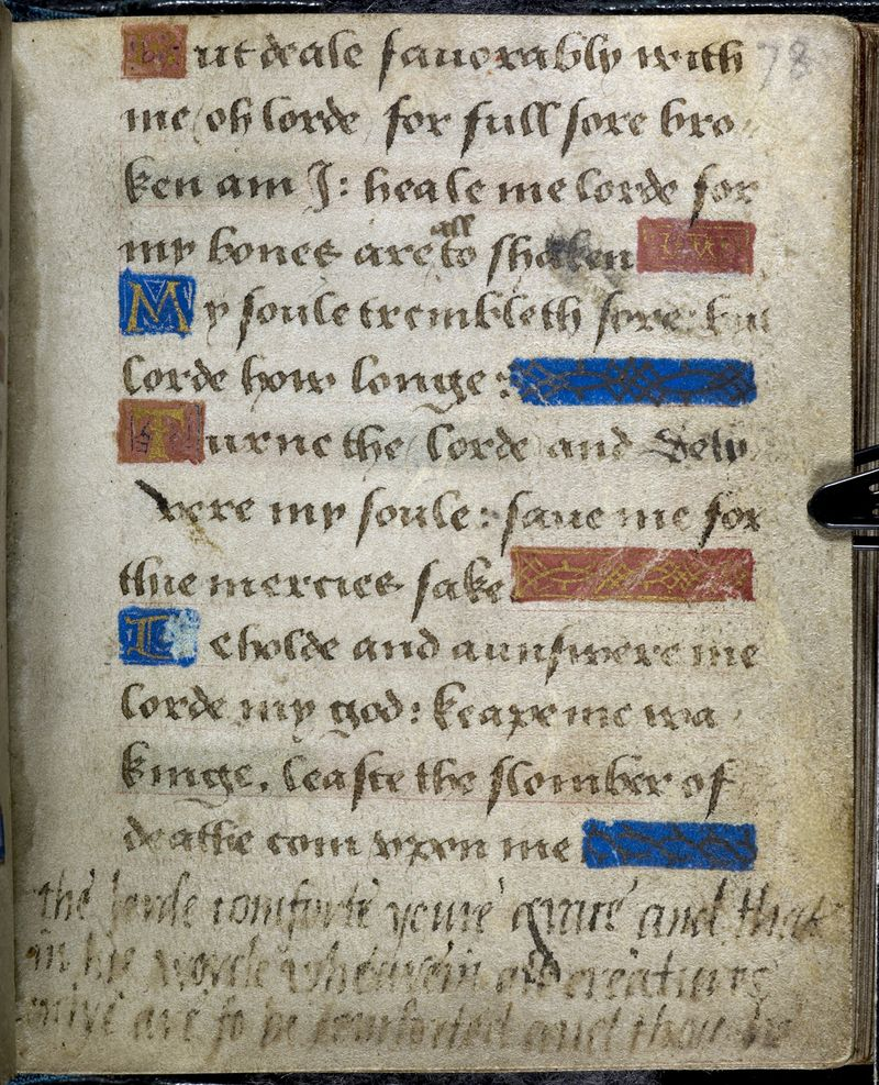 Page from a 16th century prayerbook with writing in the margins - believed to be the Jane Grey prayerbook that she took to the scaffold (Harley 2342)